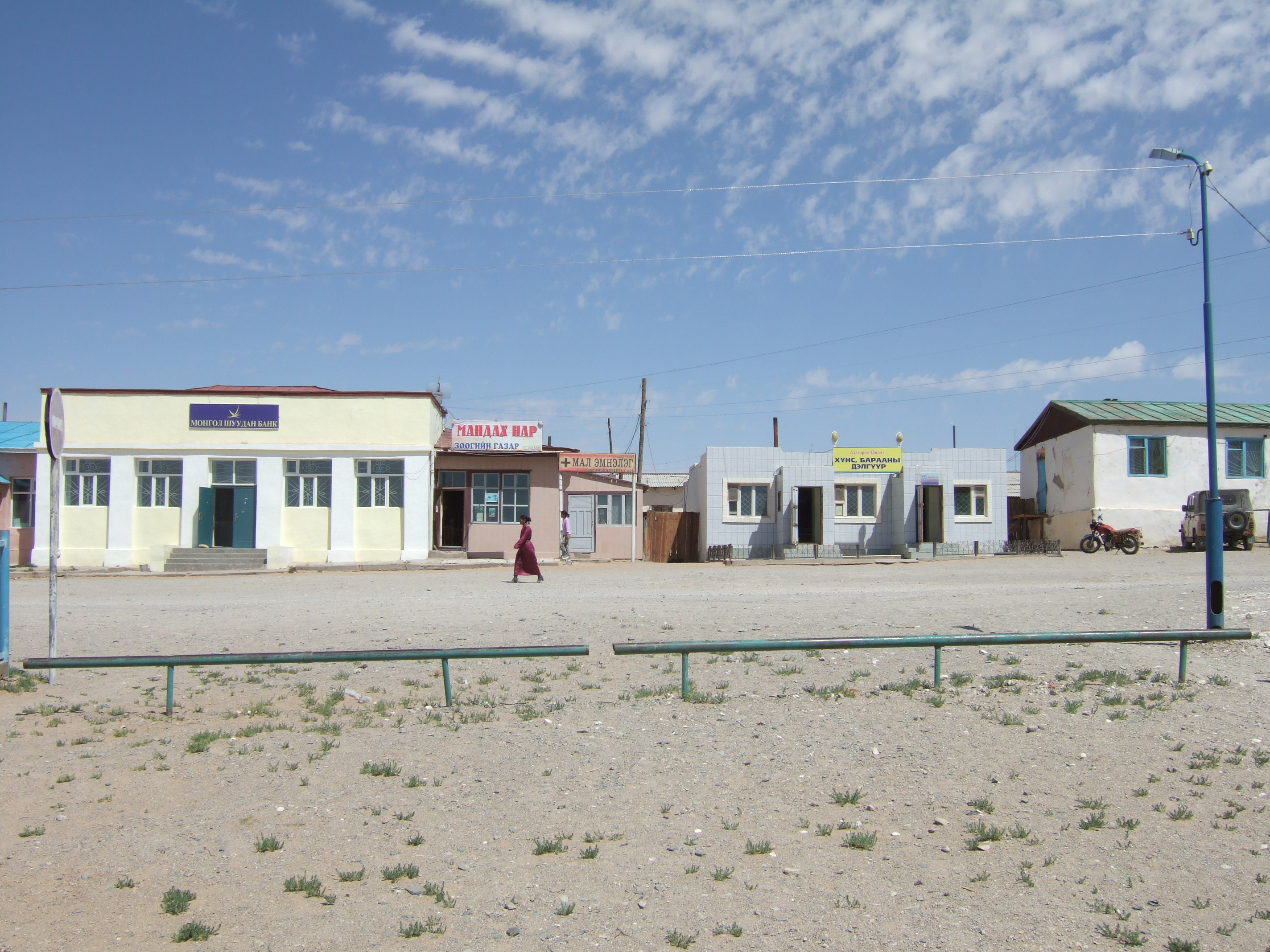 The main street in the town of Erdenedalai in Mongolia, taken in July 2007 by Clive Newstead.